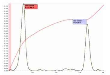 Fig. 14. EDTA titration of calcium and magnesium in sea water (author:Lab Rat19410